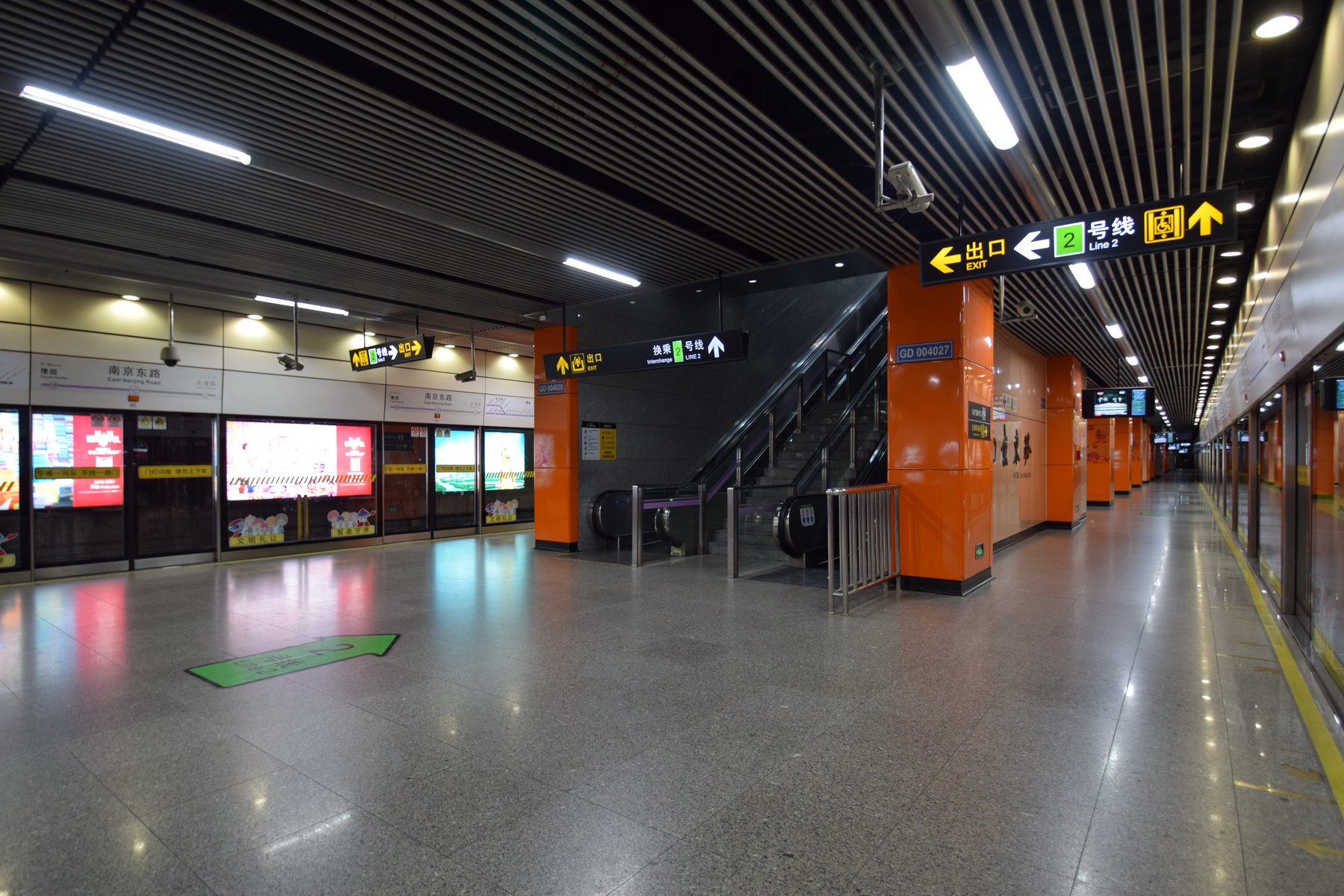 Line 10 Platform of East Nanjing Road Station, Shanghai Metro